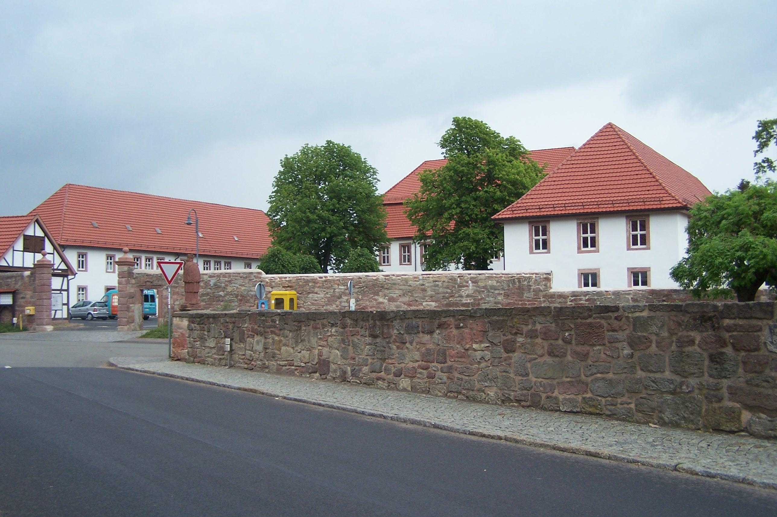 The castle in Dermbach village.